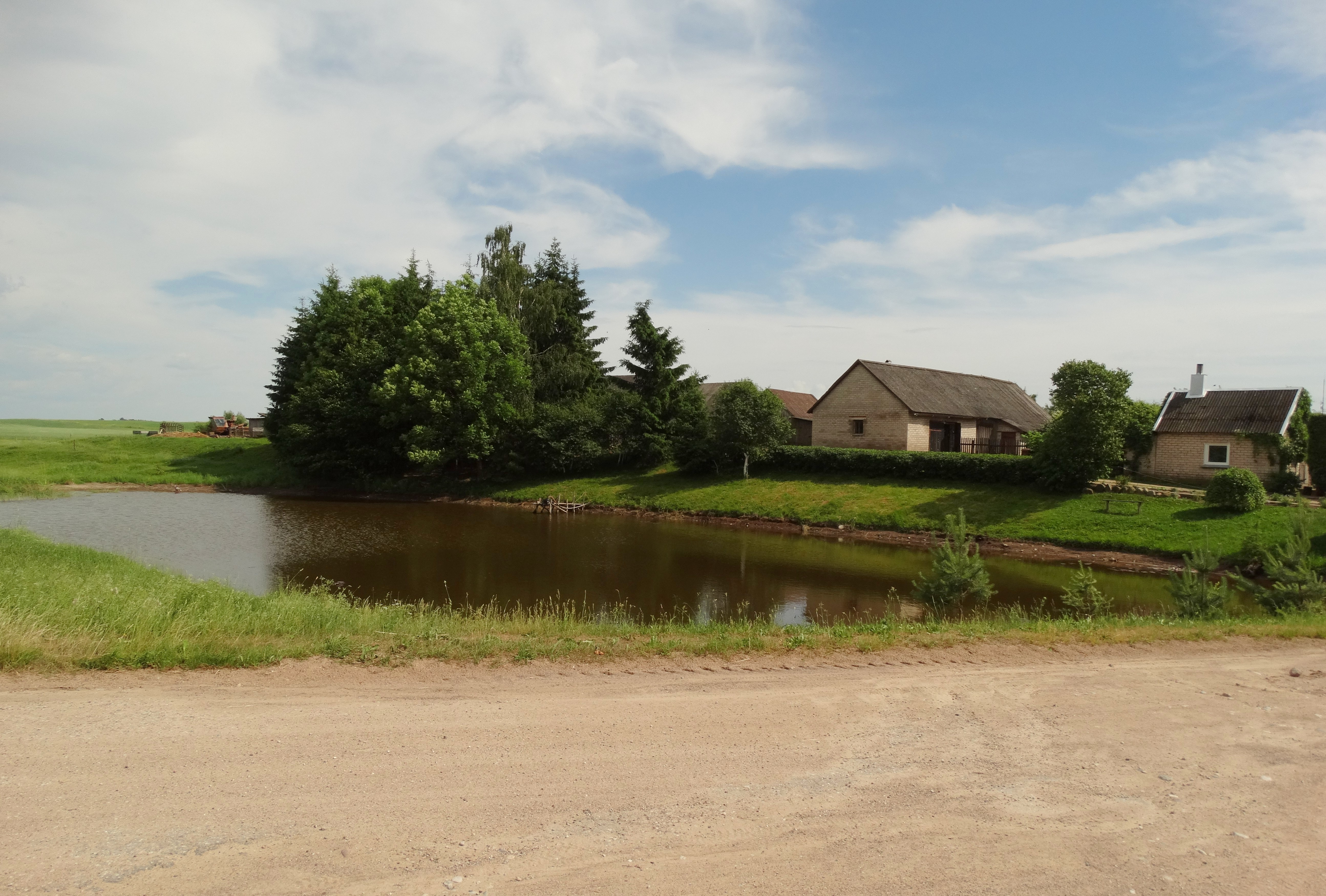 Pažvirintys, Raseiniai district, Lithuania